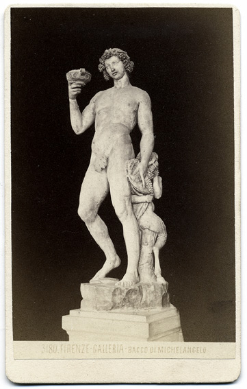 Giacomo Brogi (1822-1881) - "Florence. Gallery. Bacchus by Michelangelo. Catalogue # 3180. This statue is now at the Museo del Bargello.